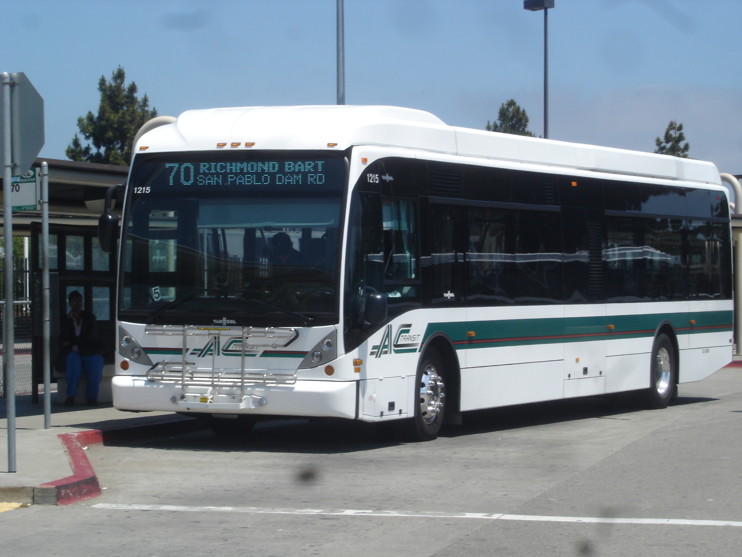 A 40-footer Van Hool bus operated by AC Transit parked at the Richmond BART Station as Route 70.